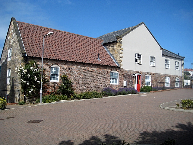 Old Sail Loft, Spital Bridge. Formerly an early C19 warehouse, this L shaped grade II listed building is now a holiday let. See right side view. 1402154